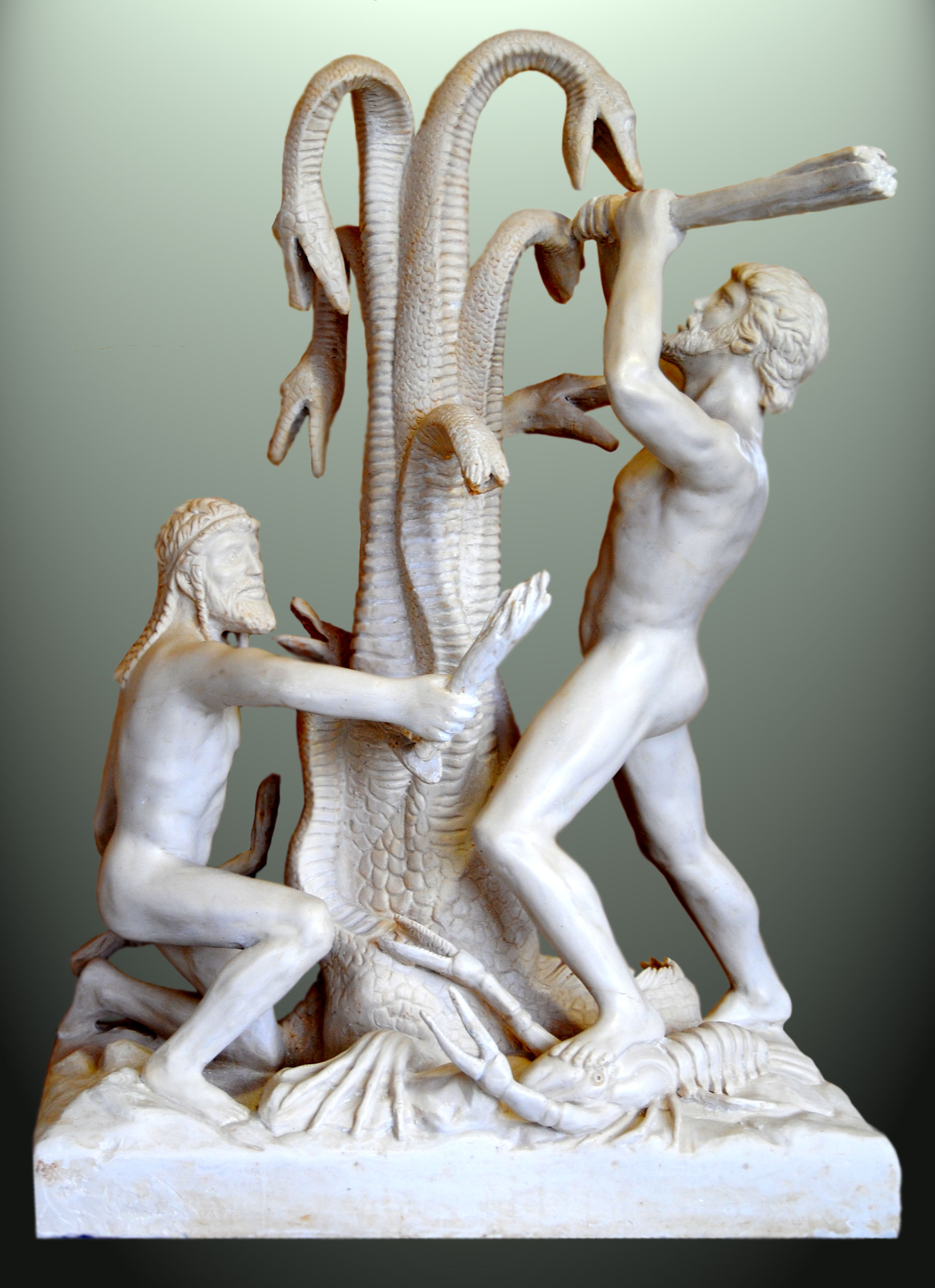 Heracles slaying the Lernean hydra. Statuette of 85 by 60 and 37 cm.Work of J. M. Félix Magdalena